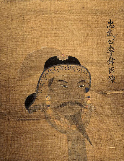 Portrait of Yi_Sun-sin, Busan Cultural Heritage Material No. 56